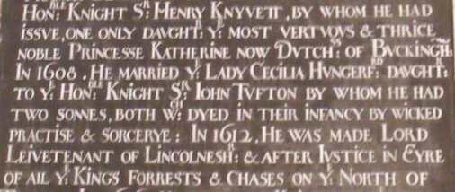 Inscription on Tomb of 6th Earl of Rutland